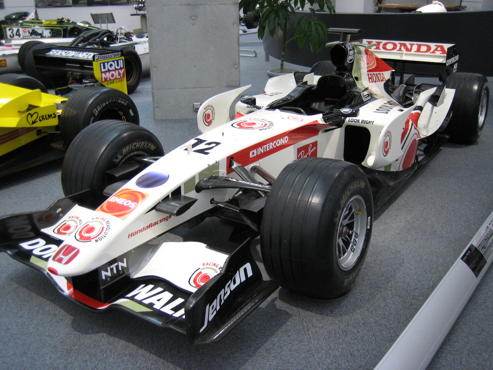 I photoed RA106 in the Honda collection hole.